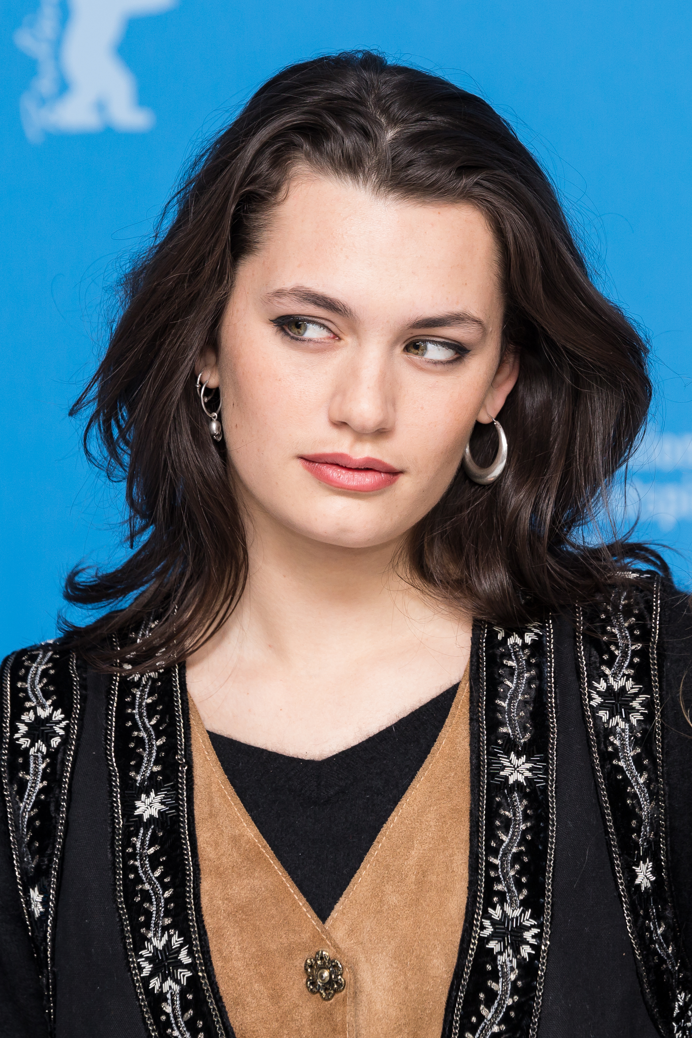 Actress Ella Rumpf at the presentation of Tiger Girl at the Berlinale 2017